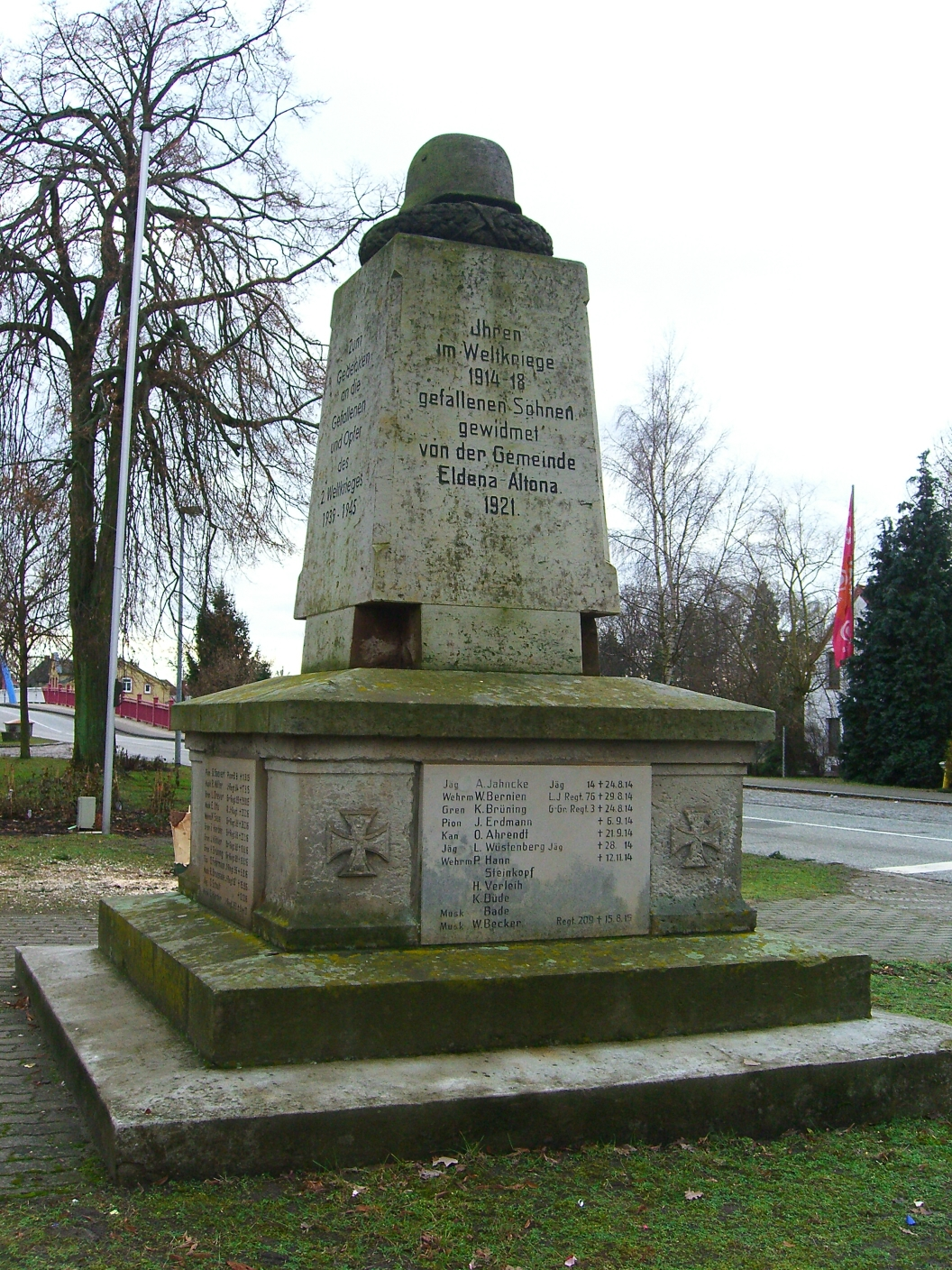 War memorial 1914-18 and 1939-45 in Eldena